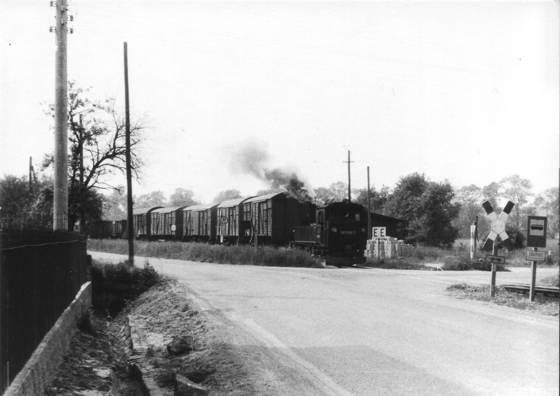 cargo train of narrow gauge railway in Nebitzschen near Mügeln, Saxony, Germany